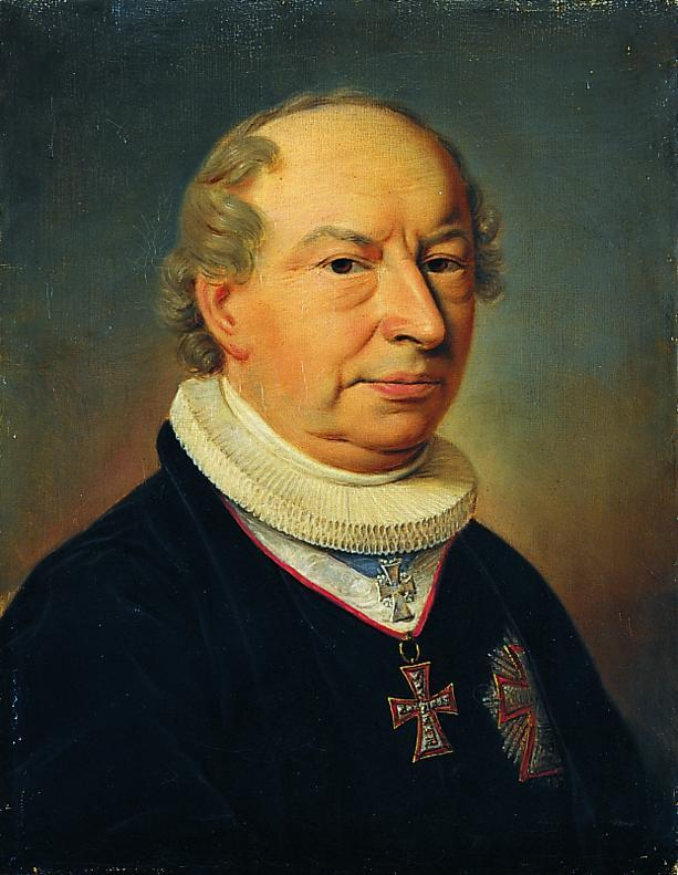 Friedrich/Friederich Münter. This is a copy painted in 1833 by Christian Albrecht Jensen. (The original painting is from around 1820 and by Christian Horneman). Frederiksborg Museum.